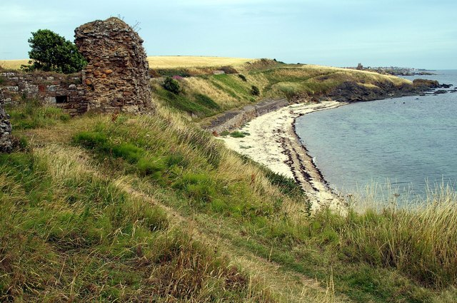 Ardross Castle Fife Coastal Path passes through the ruins of this 14th century ruined castle.